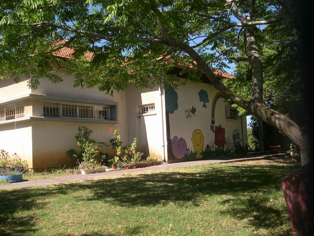 Kindergarten facade, drawing on the wall by volunteers from the UK, 1996 , Note: 2228